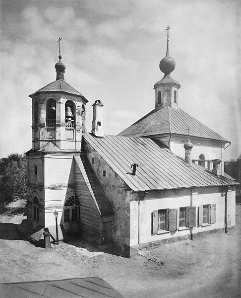 Church of Theotokos of Tikhvin in Berezhki, Moscow.